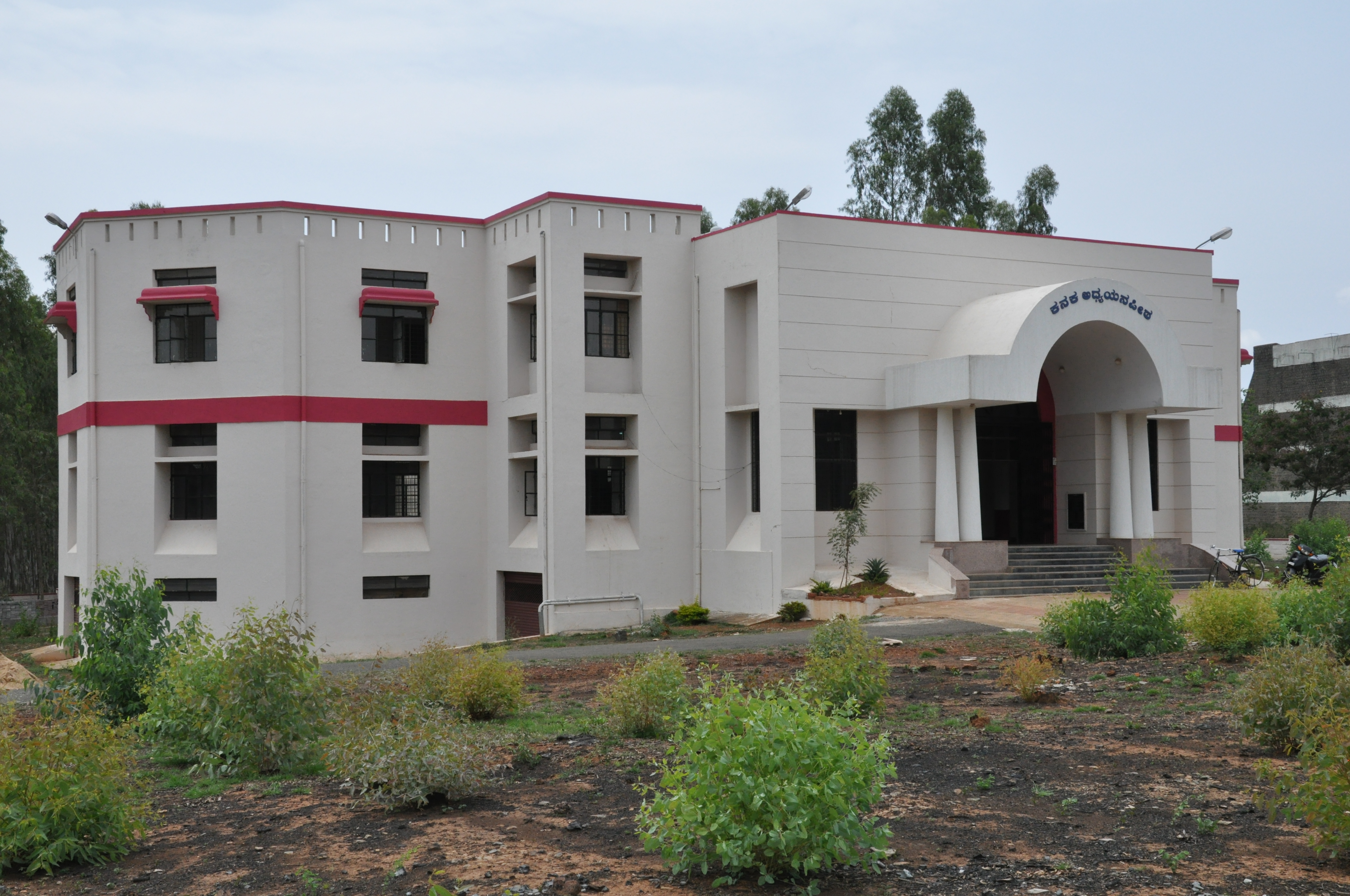 Kanaka Adhyayana Peeta at Karnataka Univerrsity, Dharwad